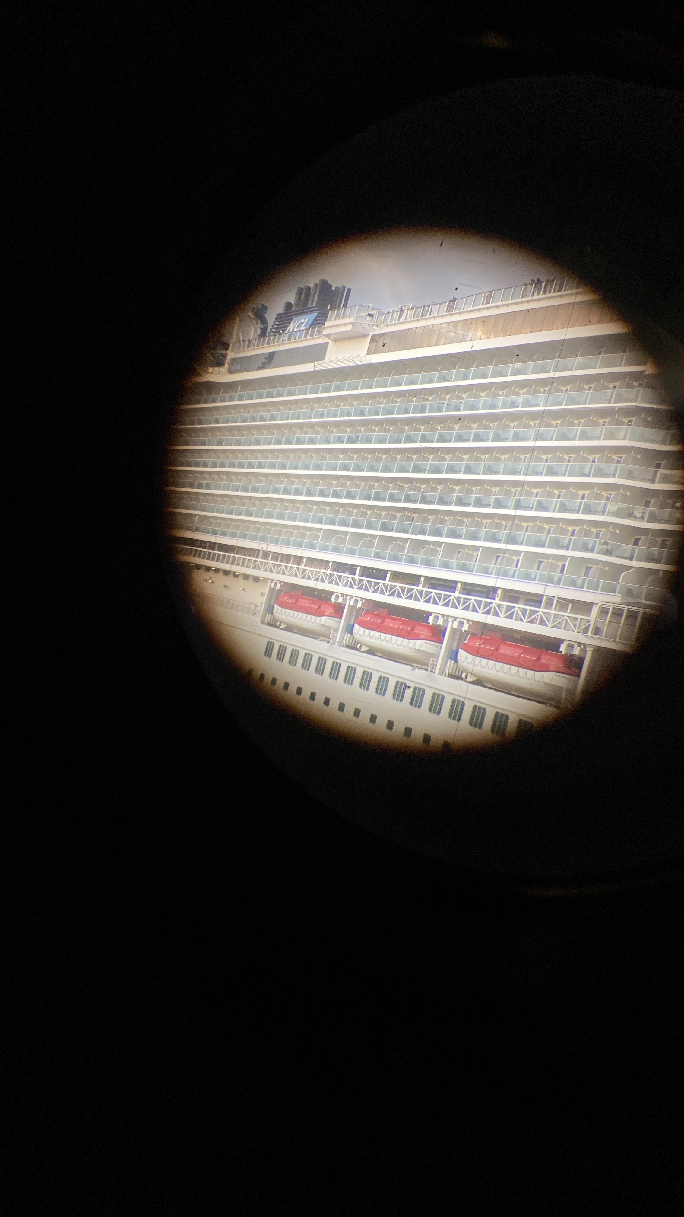 The attack periscope, were crews would sight enemy ships to sink or survey the surroundings, still works. Here you see the Norweigian cruise ship Bliss docked next to Growler in New York City.